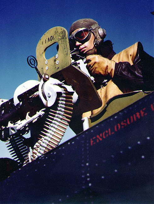 A U.S. Navy Radioman-Gunner of a Douglas SBD Dauntless aims his aircraft's twin 7.62 mm (0.30 in) caliber Browning M1919 machine guns aboard the light aircraft carrier USS Independence (CVL-22), during the carrier's shakedown period, 30 April 1943. Note the guns' armor plate, gunsight, and variety of bullet types (with tip marking sequence: red, black, light blue & plain).